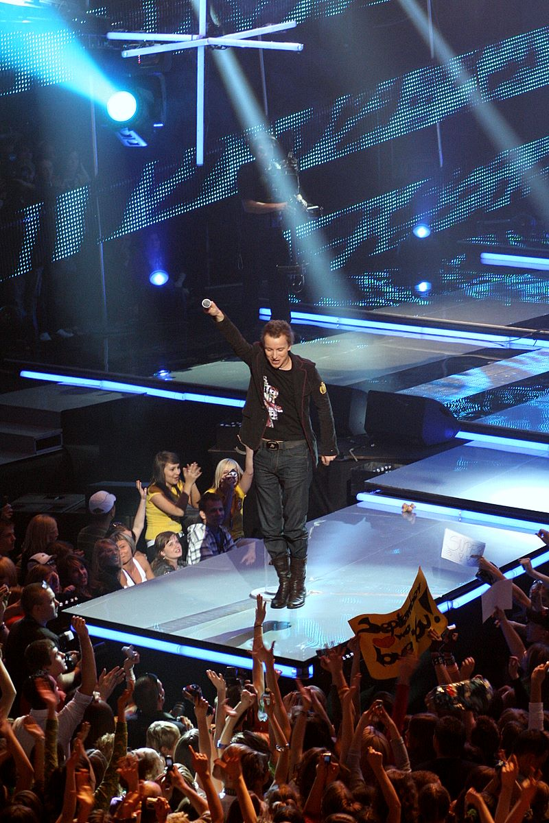 Feel at ESKA Music Awards 2008